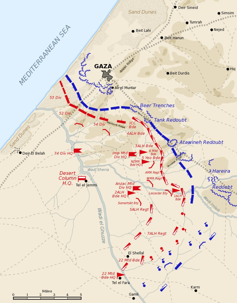 Positions of forces at 2pm on the 19th of April, 1917 during the Second Battle of Gaza. British forces are shown in red and Turkish forces are shown in blue. Abbreviations: ALH = Australian Light Horse ICC = Imperial Camel Corps NZMR = New Zealand Mounted Rifles (Brigade) AMR = Auckland Mounted Rifles (Regiment) WMR = Wellington Mounted Rifles (Regiment) Imp Mtd Div = Imperial Mounted Division